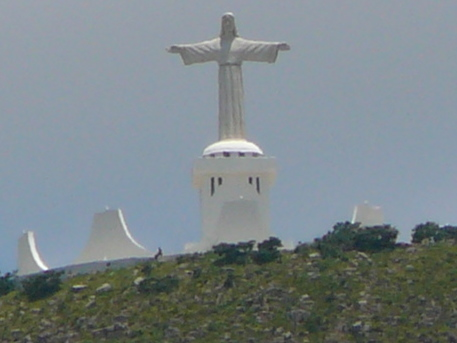 Statue of Christ the King, Lubango, Namibe